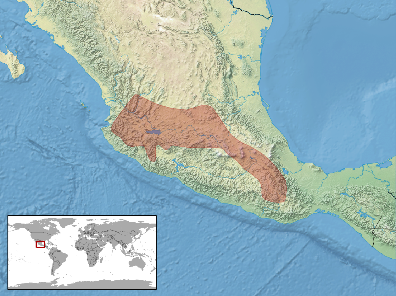 geographic distribution of Conopsis biserialis (Native: Mexico)